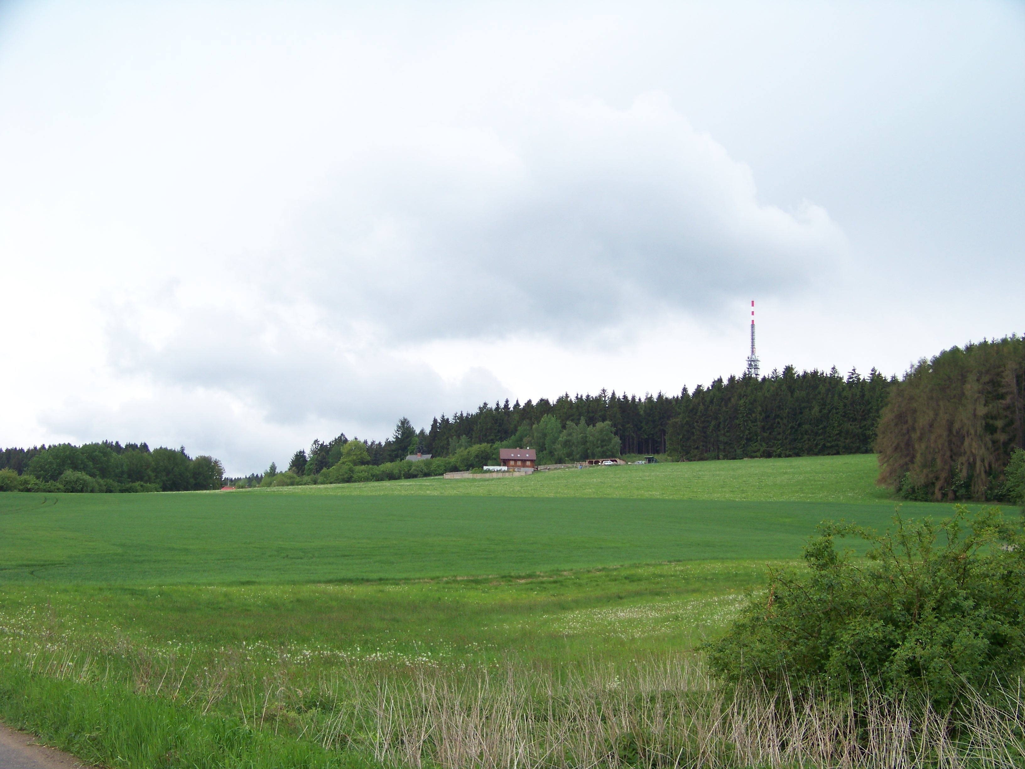 Neustupov, Benešov District, Central Bohemian Region, the Czech Republic. Mezivrata Hill.